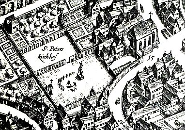 Frankfurt am Main, Germany, St. Peter's church and cemetery, 1628